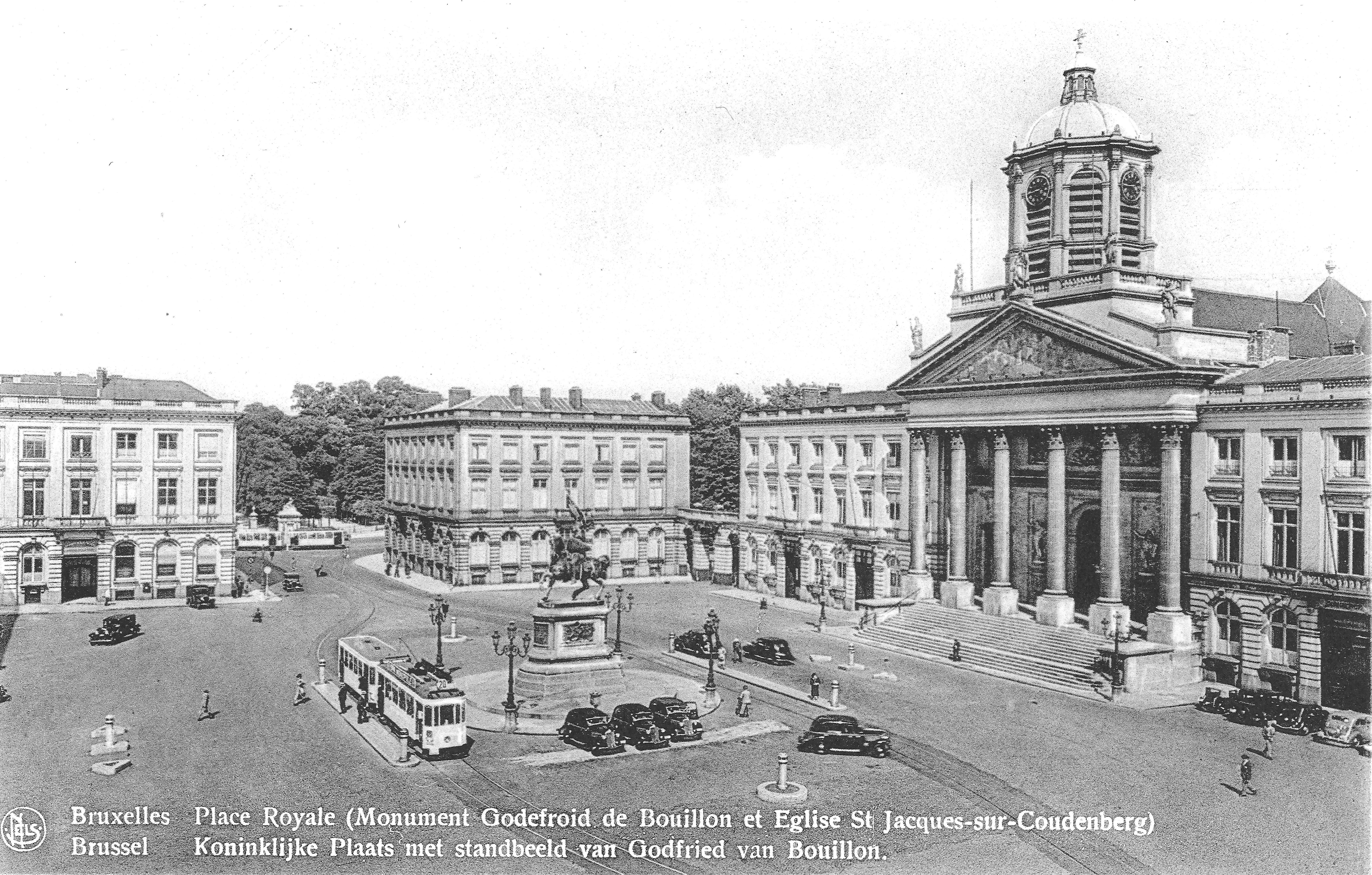 tramline 20 on place Royale in Brussels in the 1930s.